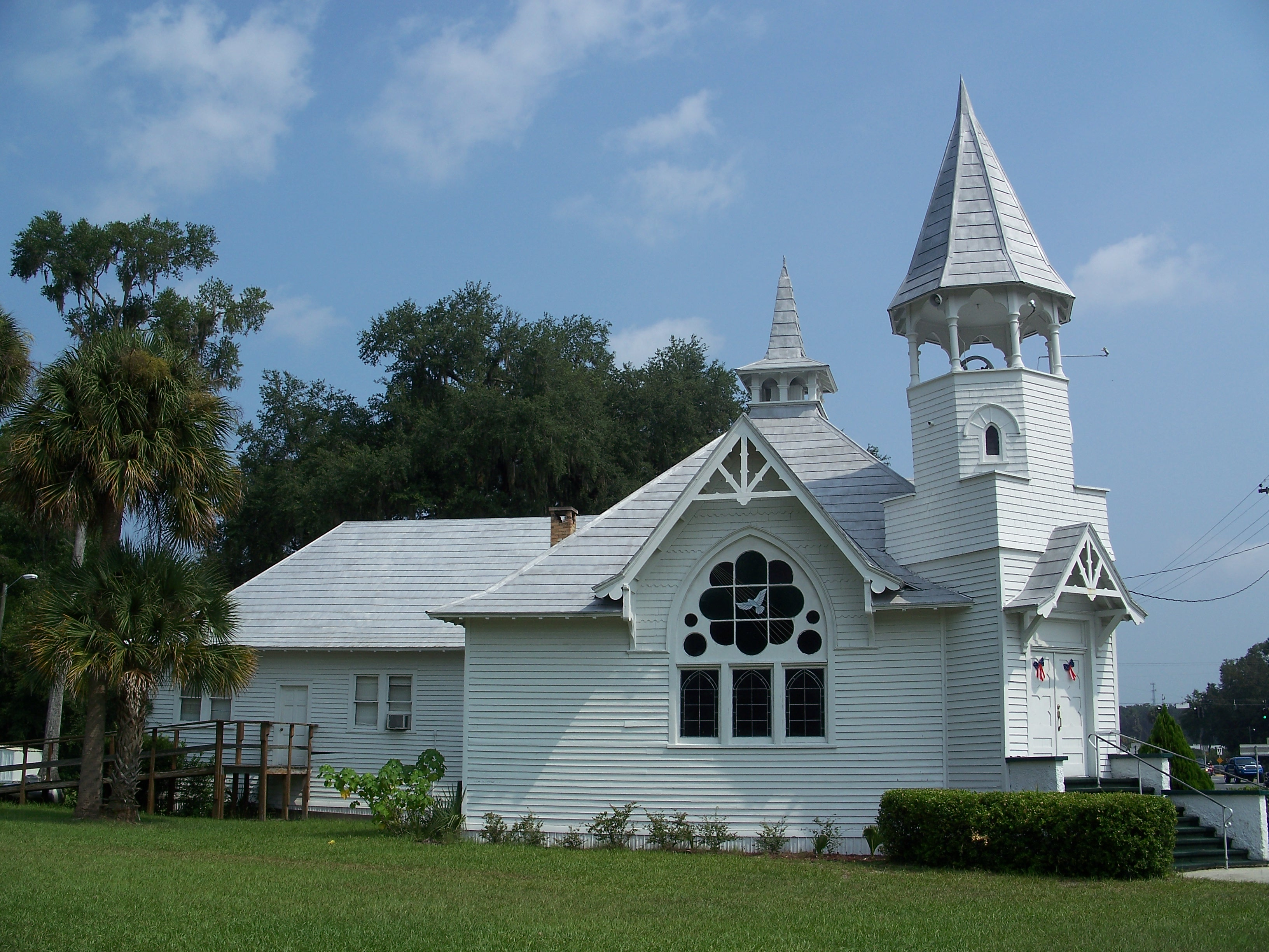 First Baptist Church, in Citra, Florida